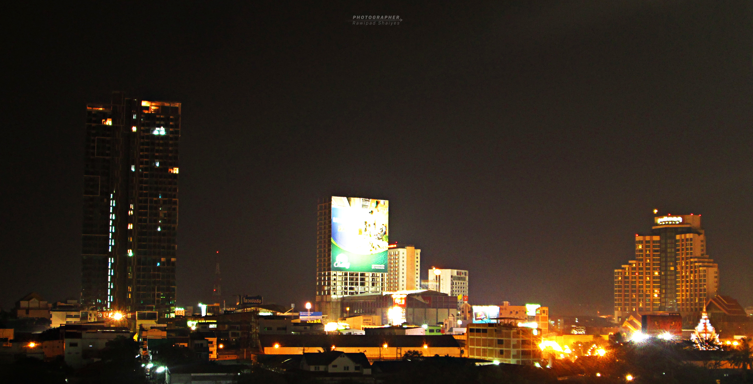 Left The Houze Condo, The highest point in Khon Kaen city with 37 storey. Almost finished in this Summer. Middle Kosa tower. Right Pullman Hotel Khon Kaen, The 5 star hotel.